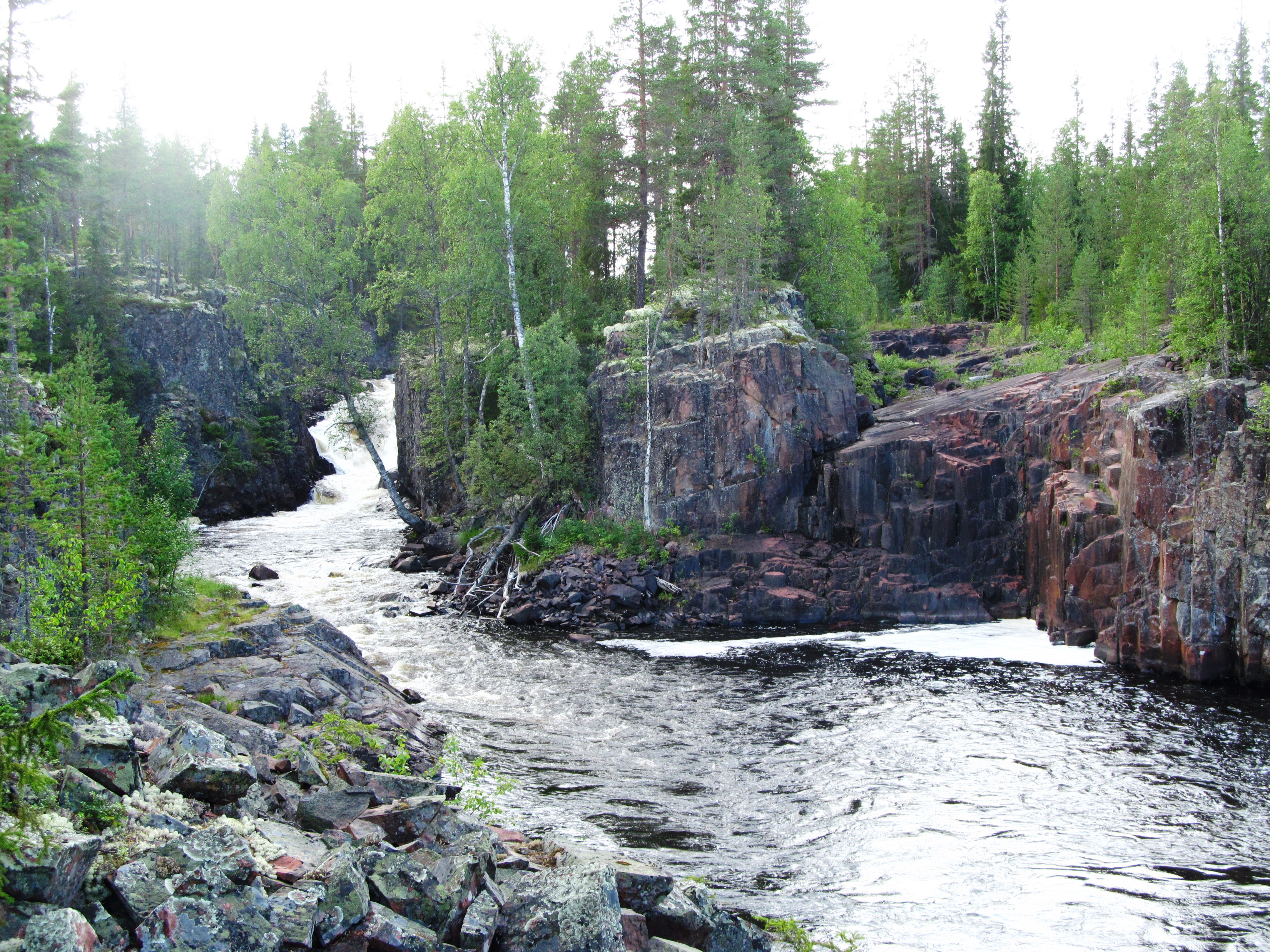 Hoedestupet with the old river path to the right and the new, blasted path, to the left.